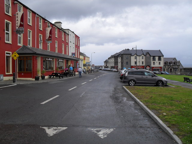 Mullaghmore village Through the village - with the Beach Hotel to the left.